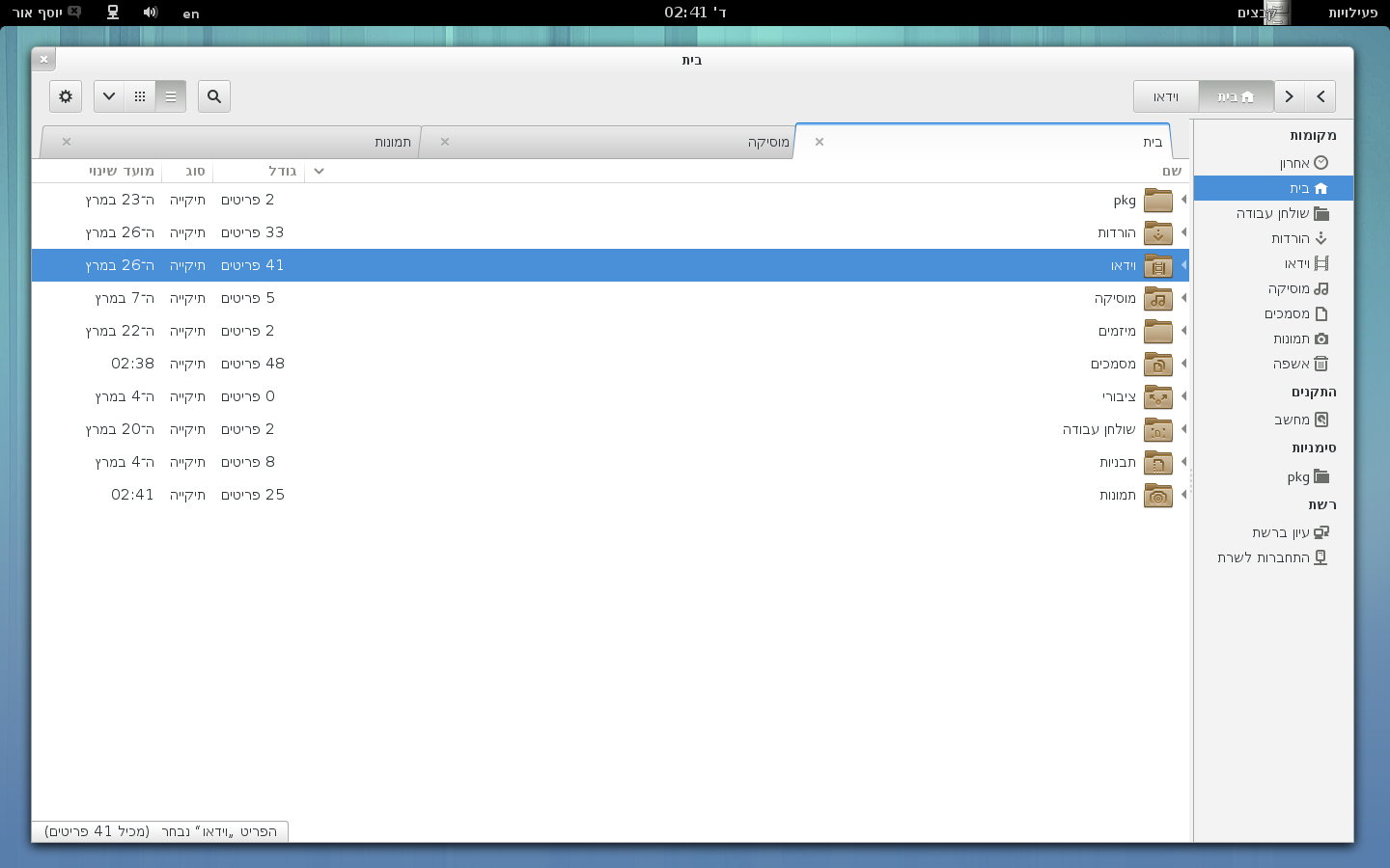 Nautilus 3.8.0 in Hebrew